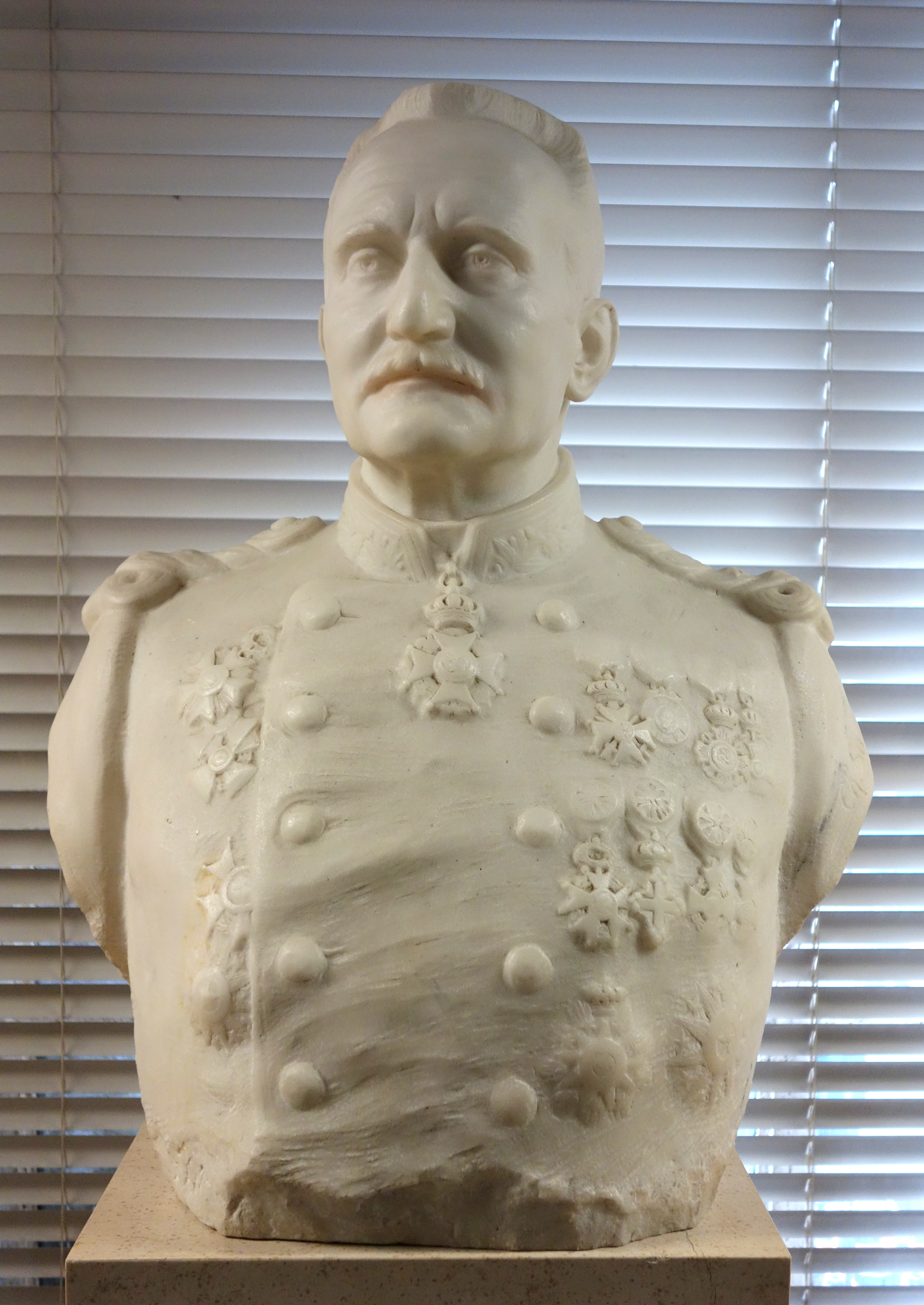 Exhibit in the Royal Museum for Central Africa, Tervuren, Belgium. This object is old enough so that it is in the public domain.